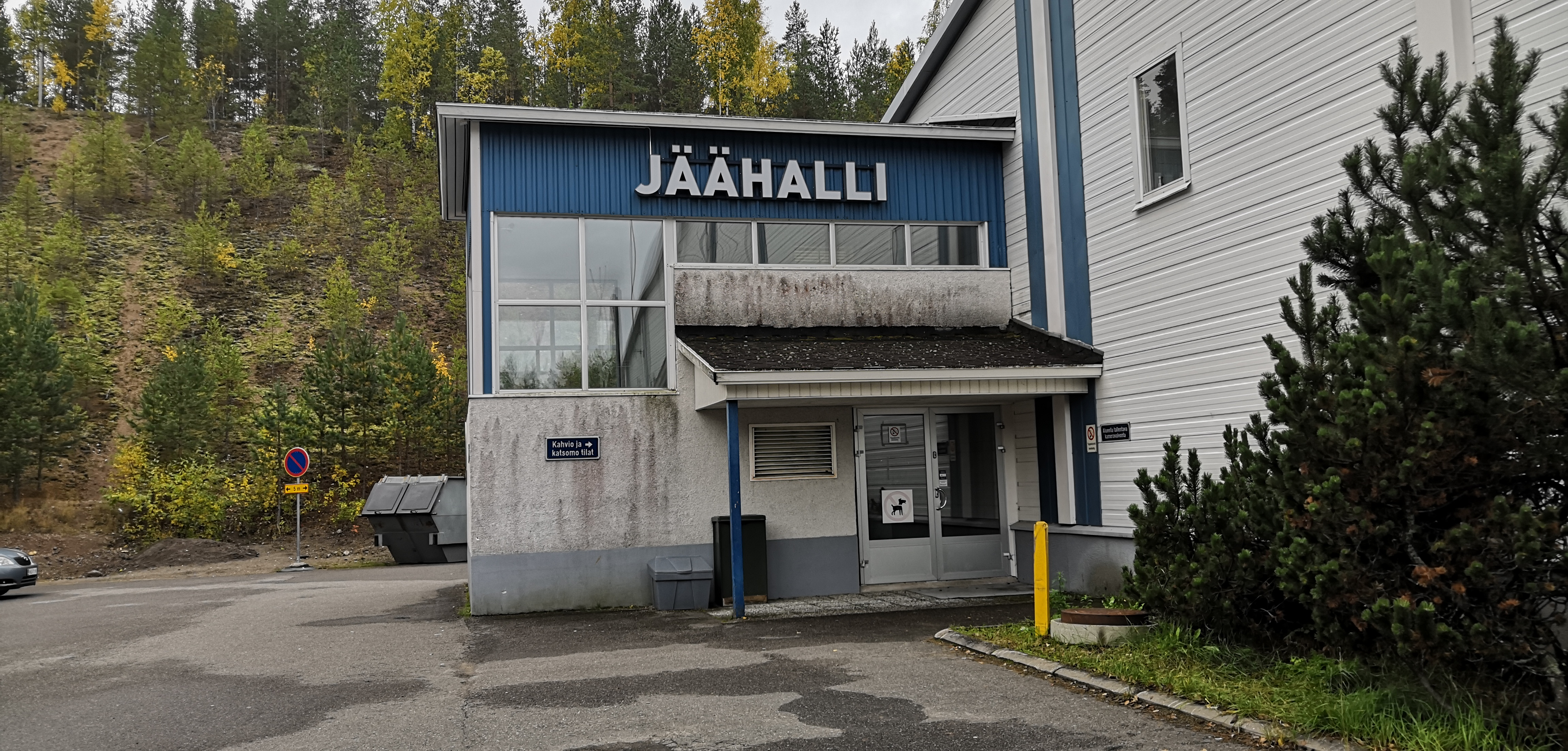 Valkealan jäähallin sisäänkäynti